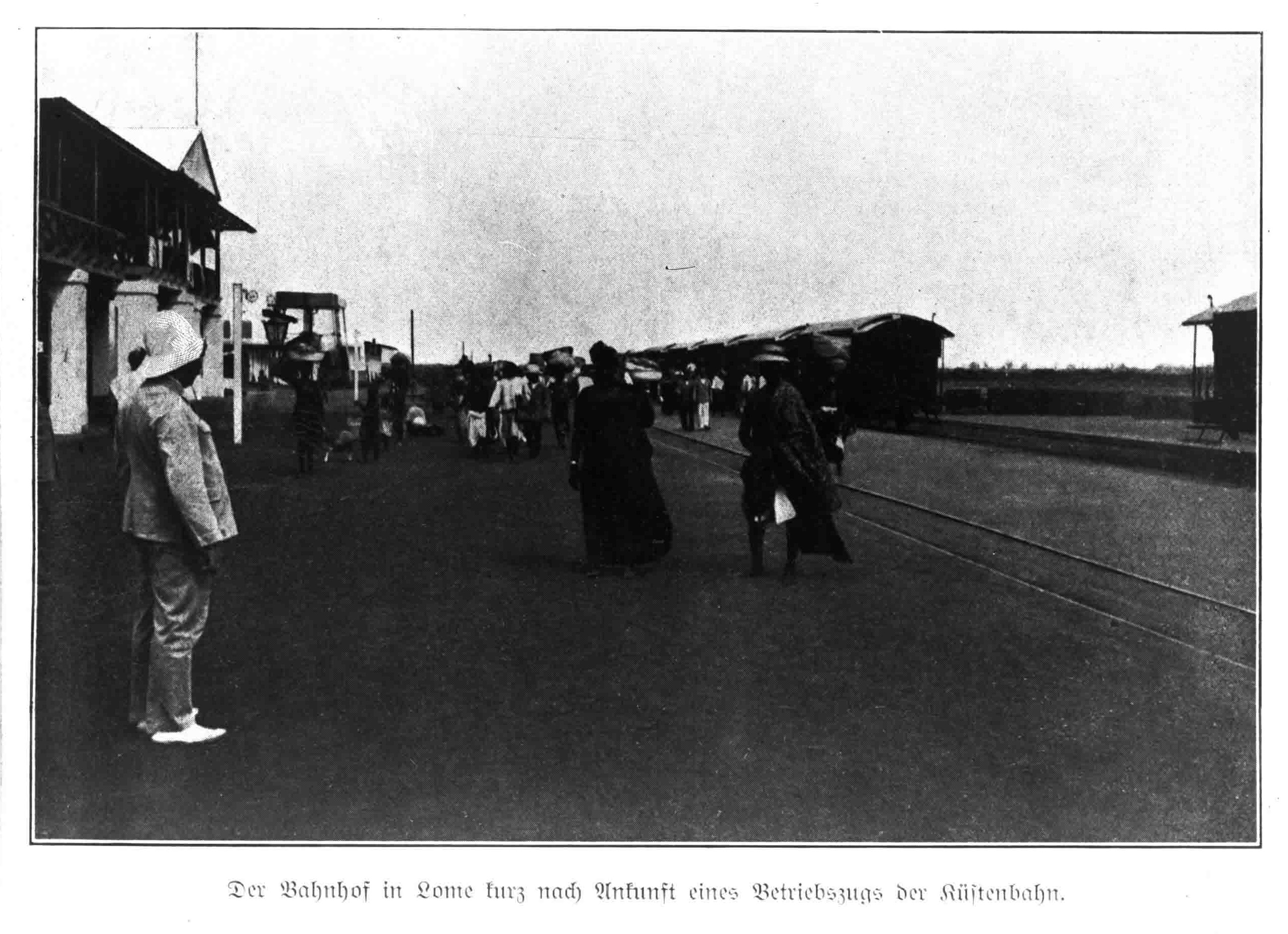 togo-coast-train at the railway station Lome